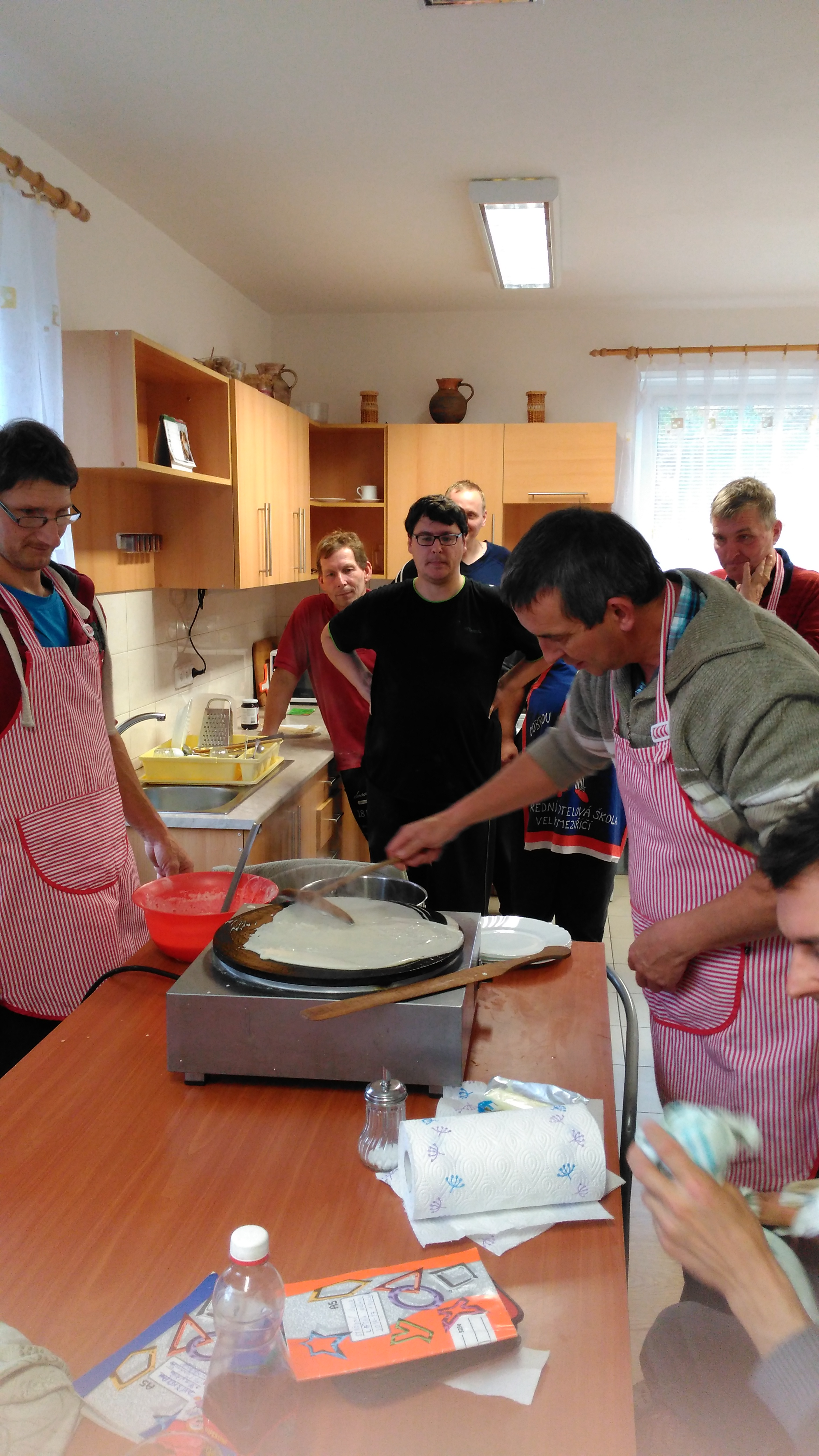 Project based learning. Hadicapped students practical education: apprentices prepare palačinky, Czech pancakes. Euroinstitut vocational school, Czech Republic.